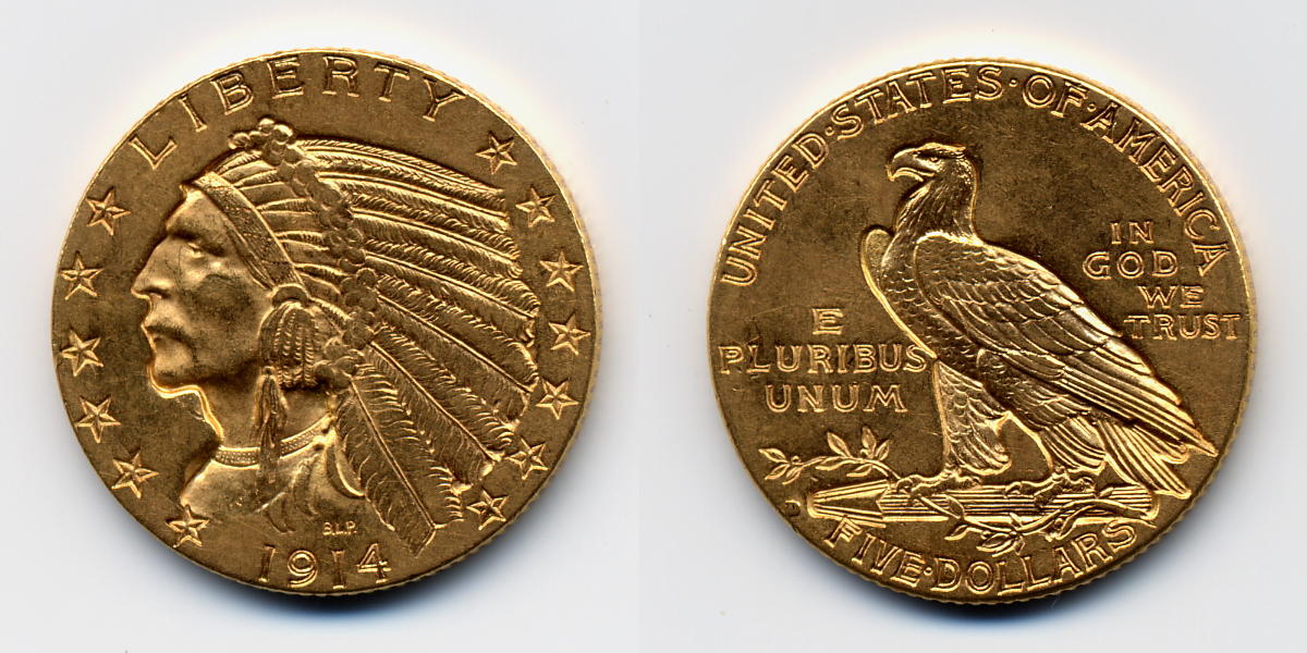 1914 USA 5 dollars coin.